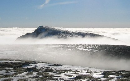 This photograph is looking south from the summit of Aonach Mor towards Aonach Beag